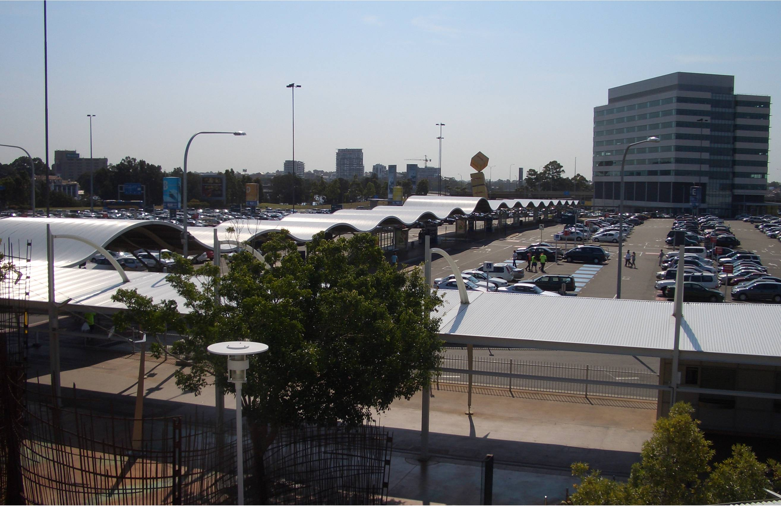 Sydney International Airport Terminal